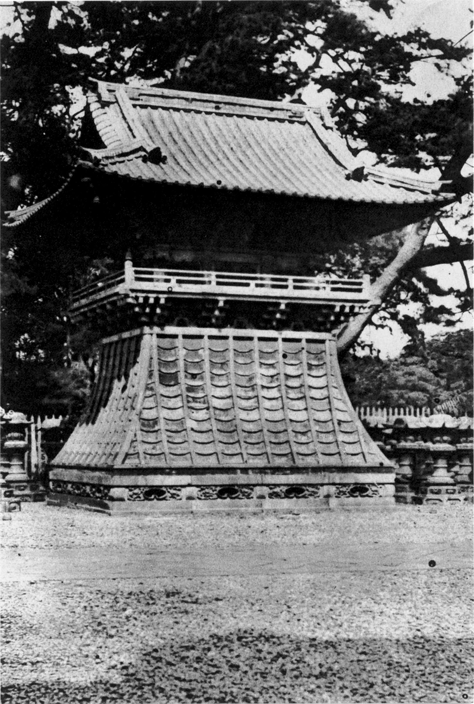 Postcard of the bell tower at the mausoleum of Shogun Tokugawa Ienobu at Zōjōji, a temple in Shiba, Tokyo